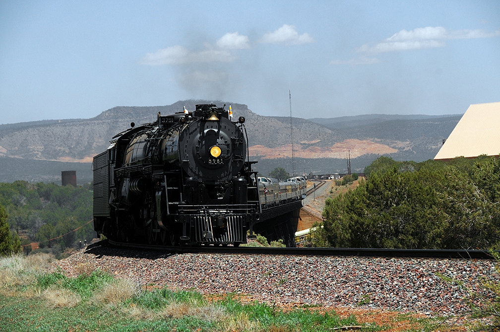 Atchison, Topeka and Santa Fe Railway 3751, Heading down the Peavine after leaving Williams, AZ on the morning of May 18 2012. Seen crossing Hell Canyon Bridge at Drake, AZ.